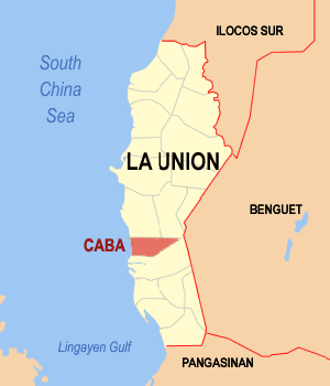 Map of La Union showing the location of Caba